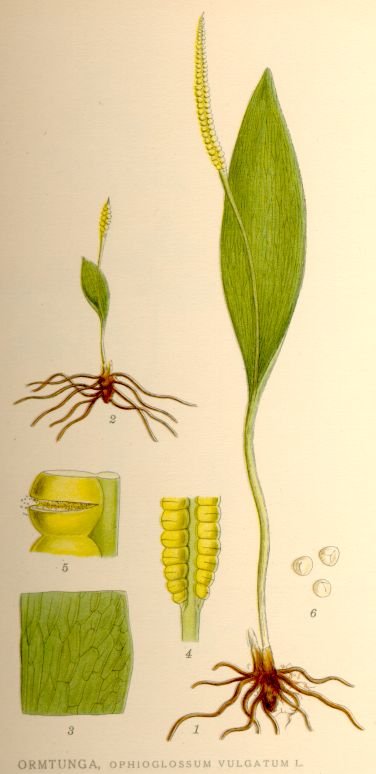 Southern adderstongue (Ophioglossum vulgatum) 1. a specimen 2. another specimen 3. piece of leaf (2/1) 4. ett stycke av den sporgömbärande bladskivan (4/1) 5. ett moget sporgömme (zoomed) 6. spore (zoomed in).